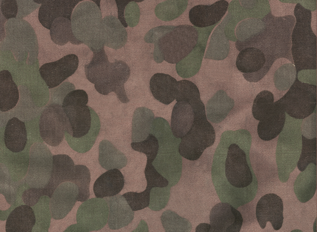 Historic Austrian Camouflage, cut and turned to get the "Camouflagio", the fictional flag od "San Sombrèro"